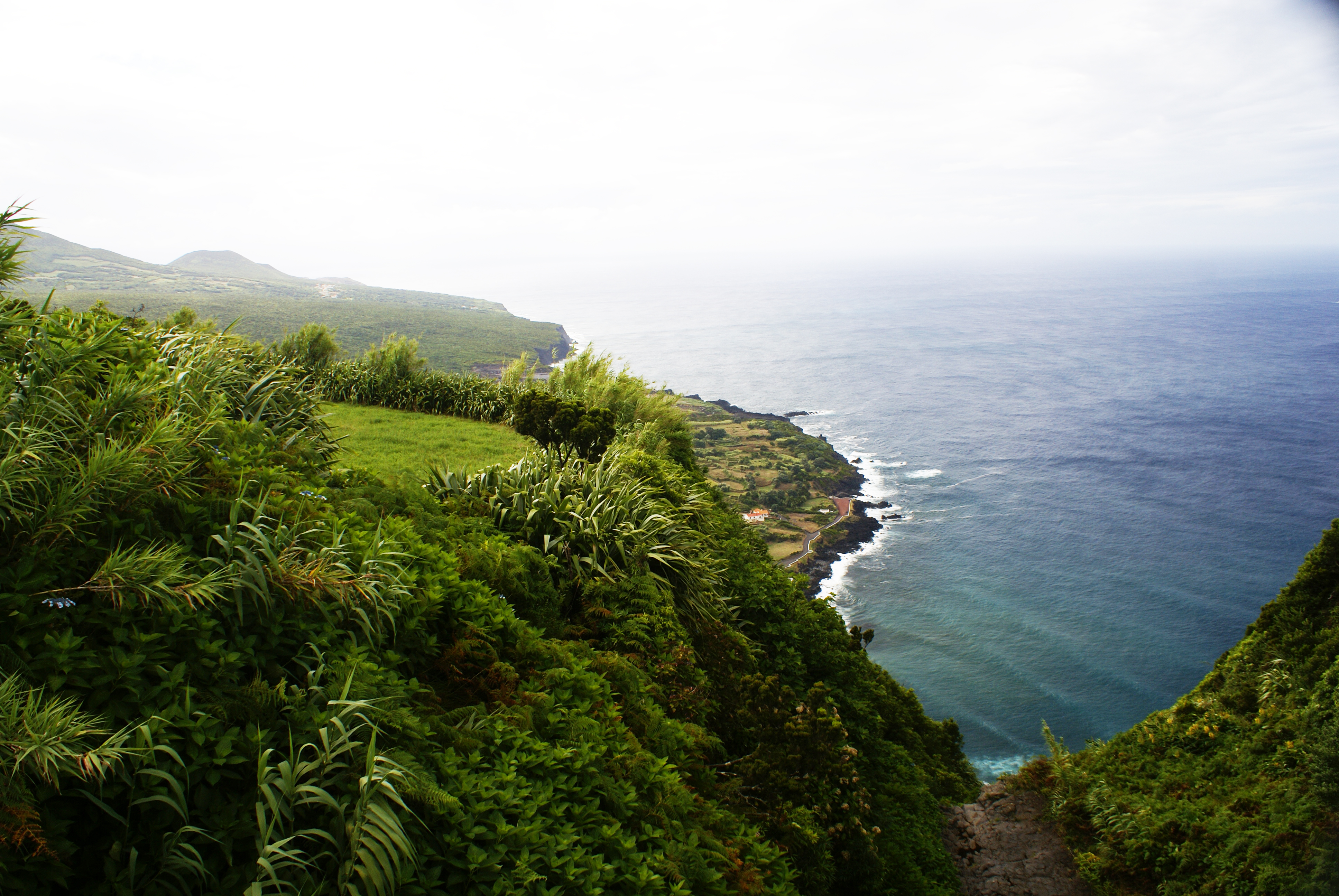 Miradouro da Ribeira das Cabras, Vista para a Fajã da Praia do Norte, vistas, Concelho da Horta, ilha do Faial, Açores, Portugal